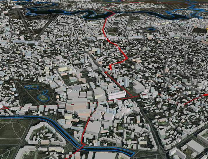 Satellite photo enhanced as 3D model with building heights constructed from shadows.